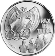 Swiss Commemorative Coin 2000 A CHF 20 obverse